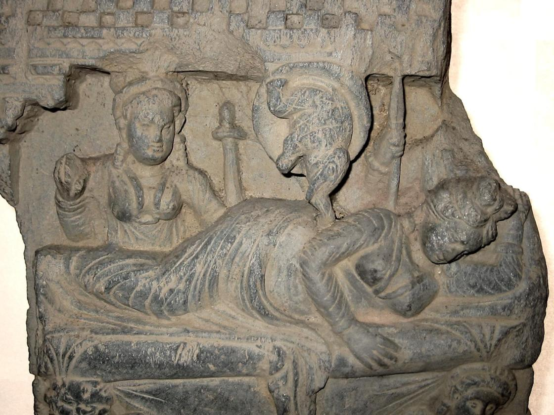 The dream of Maya, Gandhara, 2-3rd century. ZenYouMitsu Temple （善養密寺）, Setagaya, Tokyo. Personal photograph, 2005. Released under GDFL.